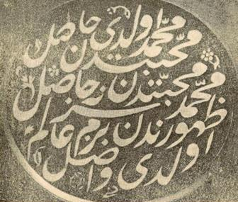 Seal of Bezmialem Valide Sultana (Ottoman queen mother)